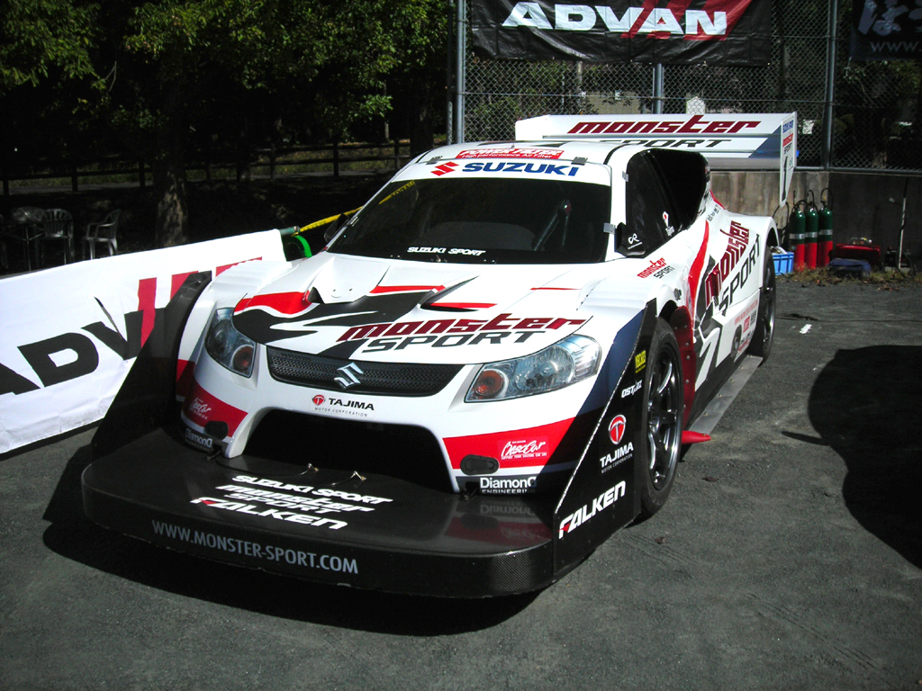 Monster Sport SX4 Hill-climb Special